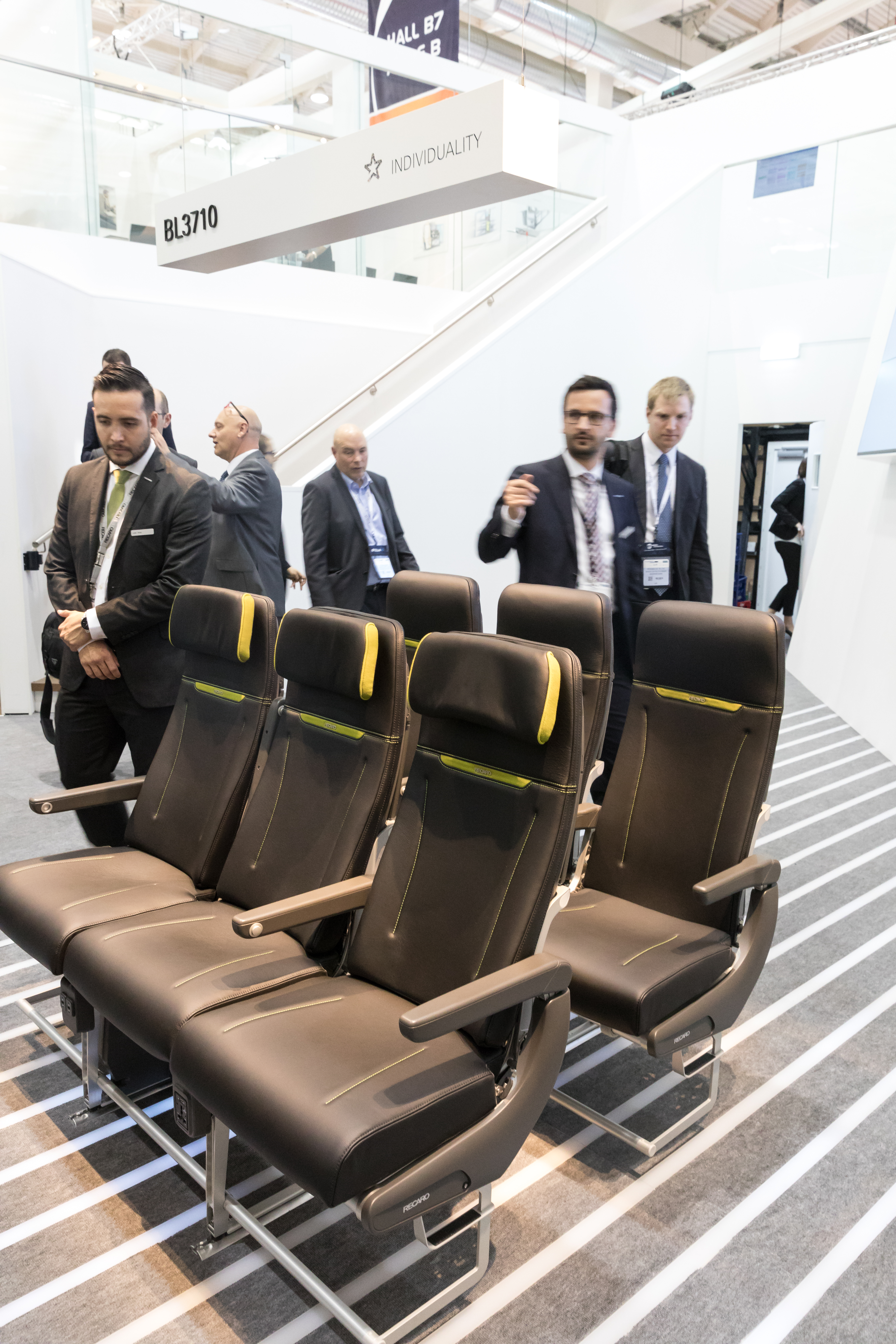 Passenger Experience Week 2018, Hamburg